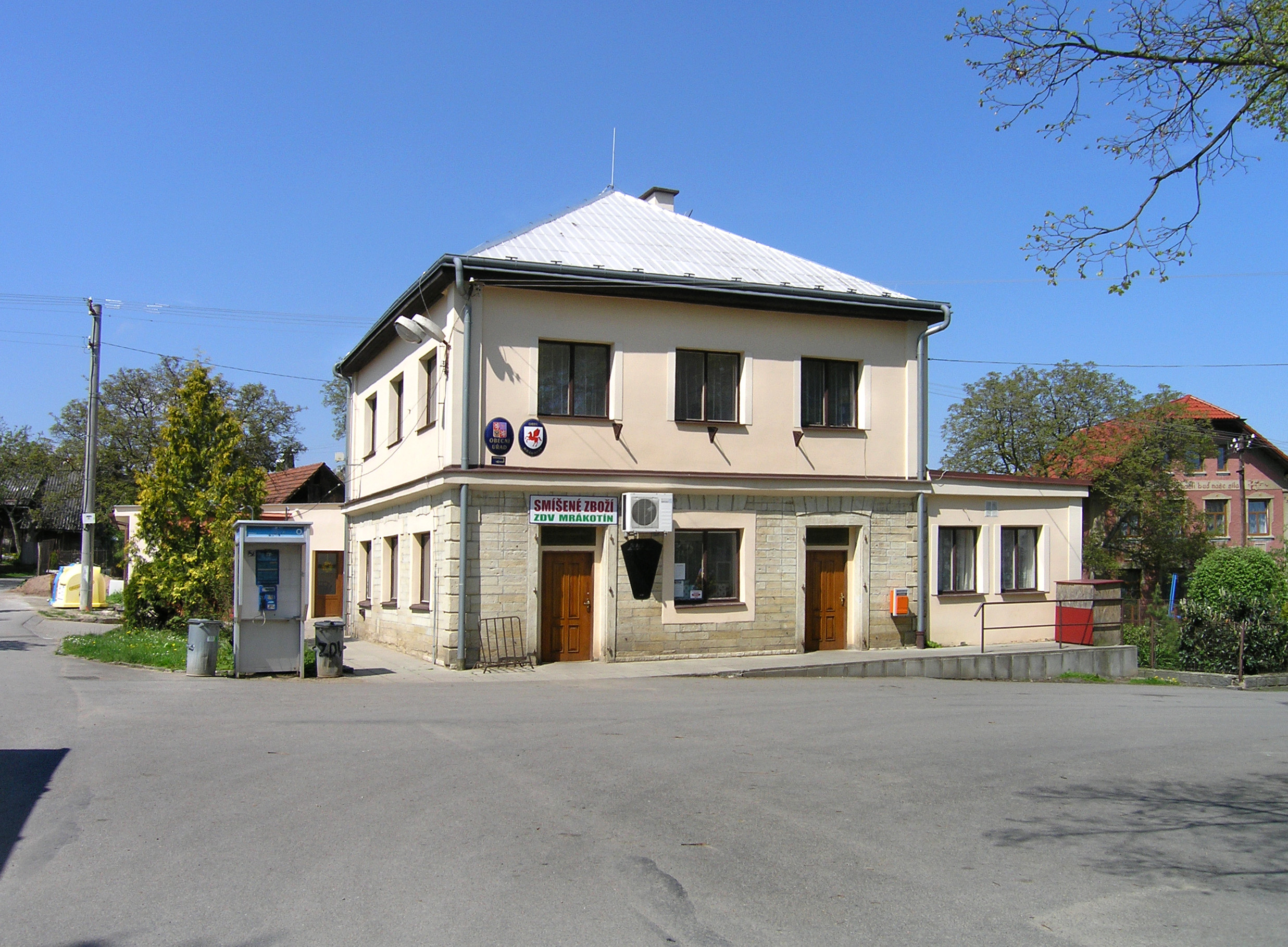 Municipal office in Mrákotín village, Czech Republic